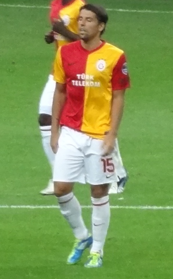 milan baros